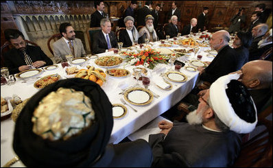 President George W. Bush and President Hamid Karzai of Afghanistan share a working lunch Wednesday, March 1, 2006, at the Presidential Palace in Kabul during a stop by President Bush en route to India.